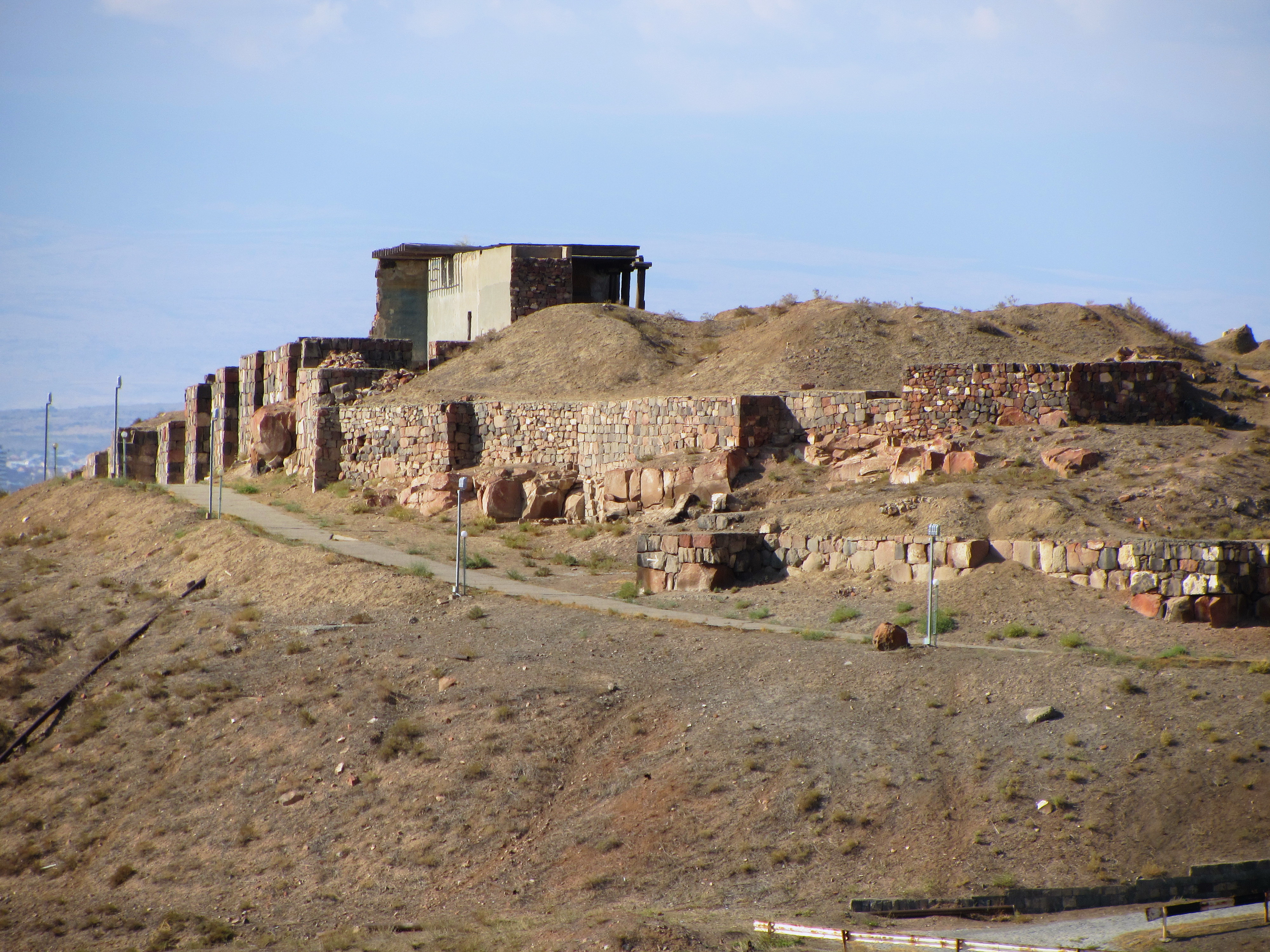 Urartian fortress Erebuni, 8c. BC, Yerevan, Armenia